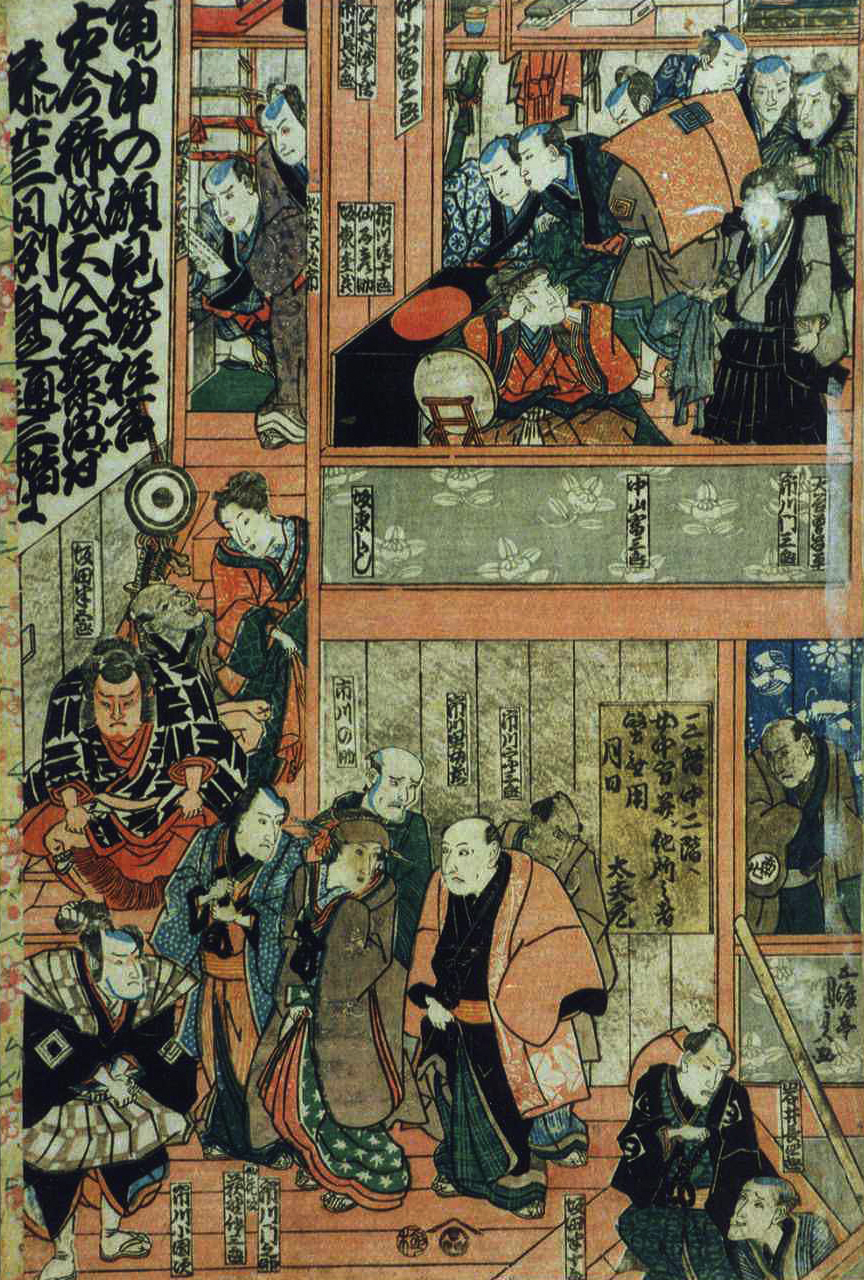 Tsuruya Nanboku IV (far right, bottom row, 1755–1829), depicted in "The Third Floor of the Ichimura-za Theater" (Ichimura-za Sangai no Zu) by Kunisada Utagawa I.